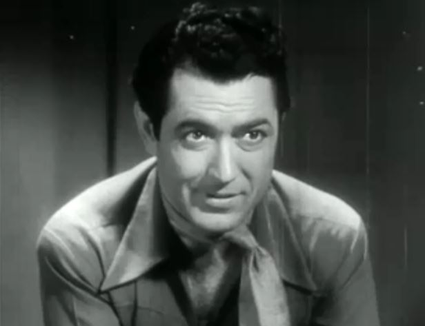 Low resolution screenshot of Dan Doran (Johnny Mack Brown) from the American western film Rogue of the Range (1936). The film is now in the public domain.